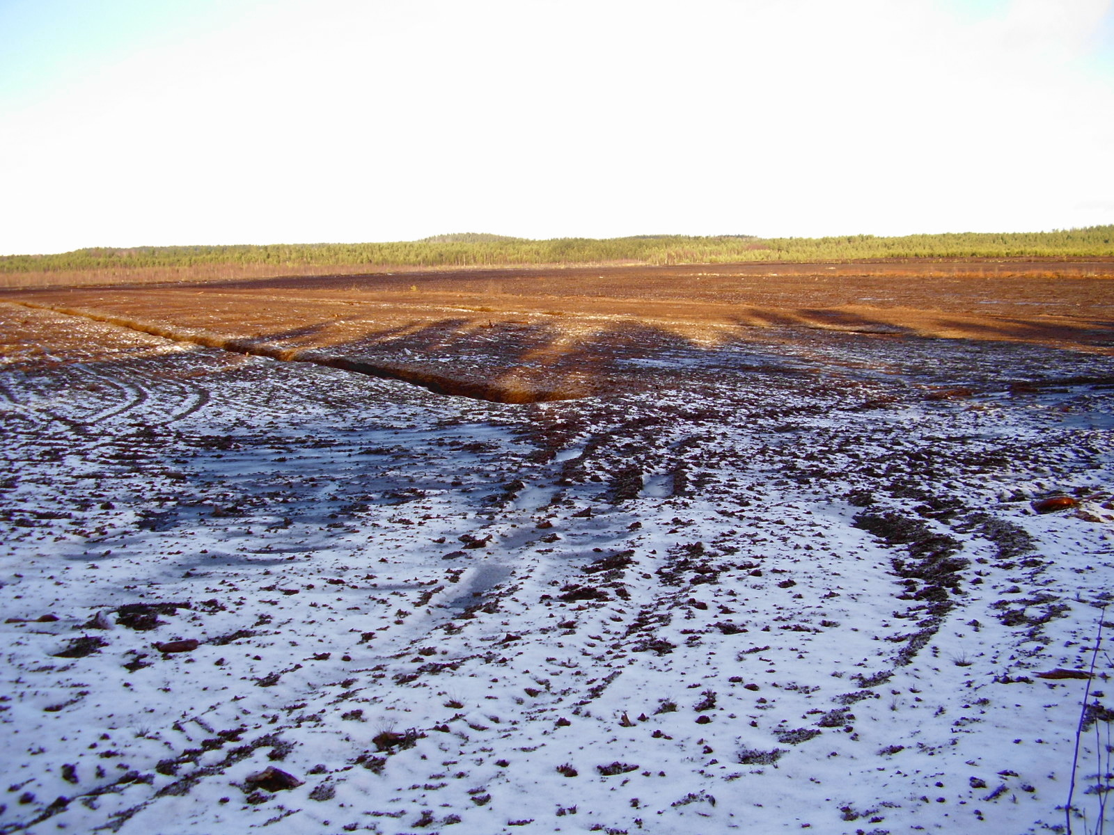 View Hanhisuo of peat production area.